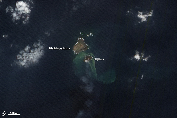 NASA image of a new island, provisionally dubbed Niijima, in the Volcanic Island arc off Japan, taken 8 december 2013, with nearby island named Nishi-no-shima (map orientation:North is Up)